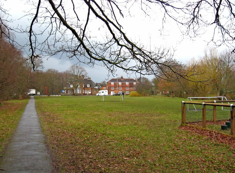 Westfield Common. The surfaced footpath comes out by The Cricketers pub on Westfield Road. The pub itself can be seen in the distance - it is the building on the left. The majority of the common is on the other side of Westfield Road. 1758054.